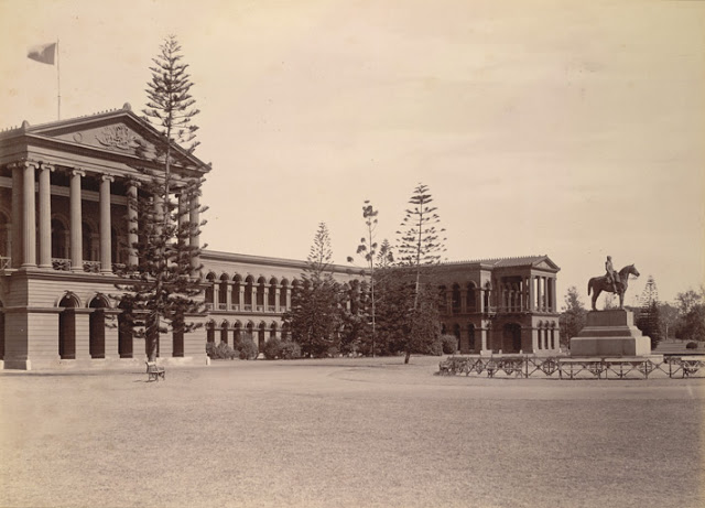 Public Offices (with an equestrian statue of Sir Mark Cubbon), Bangalore (1890). Curzon Collection's 'Souvenir of Mysore Album'